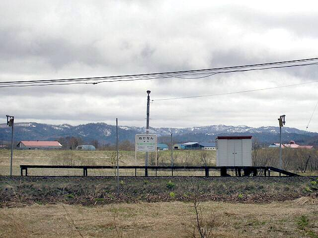 Nukanan Station on the Soya Main Line in Hokkaido, Japan